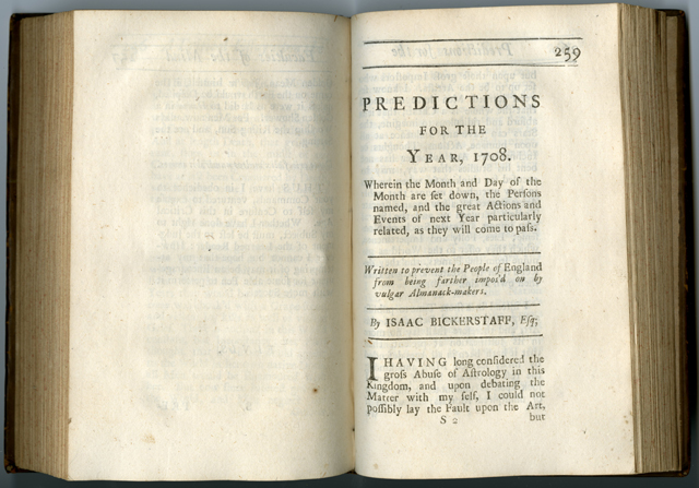 Predictions für the Year 1708